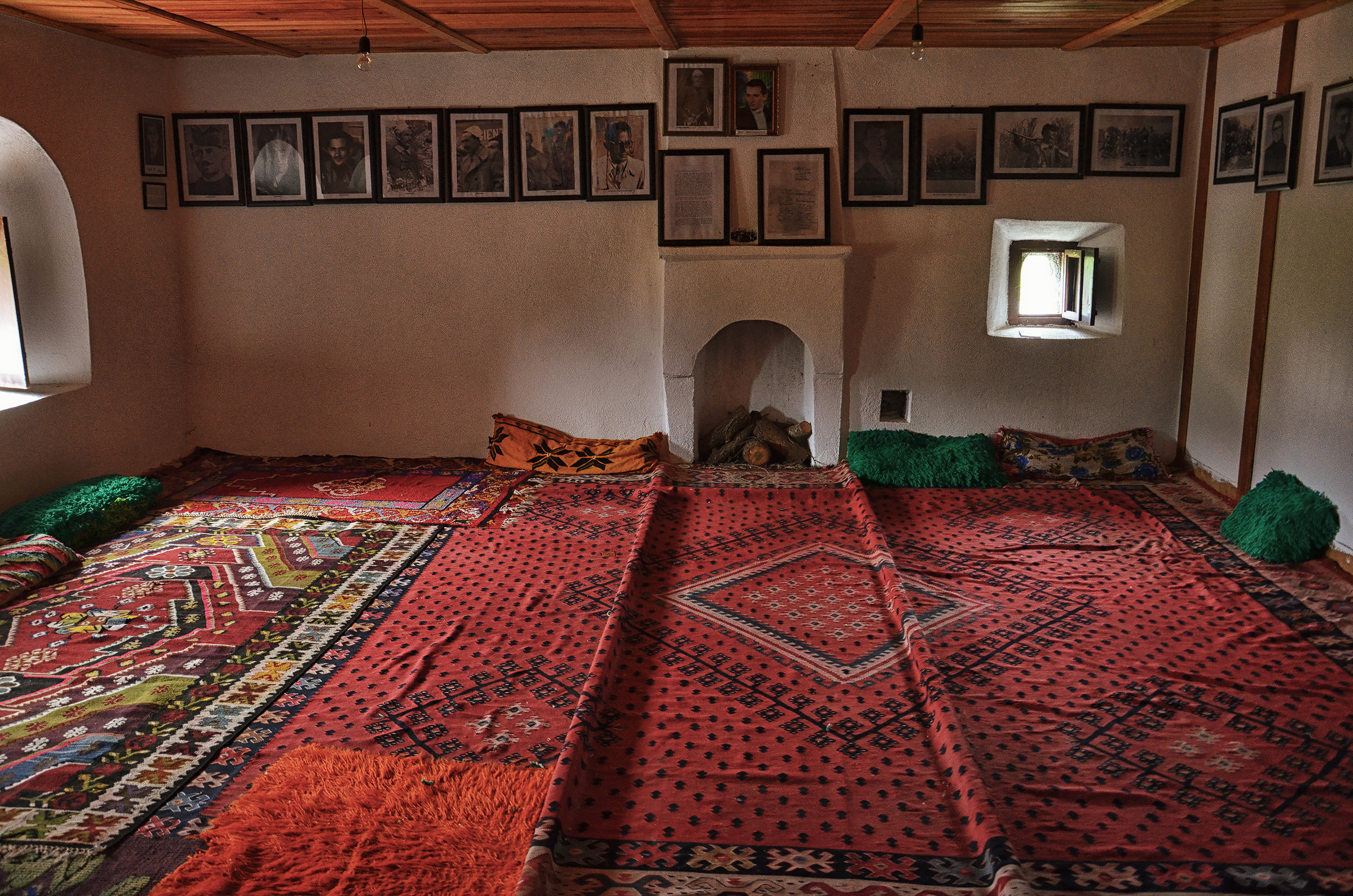 The interior of the Mani Kulla in Bujan, Tropojë, Albania